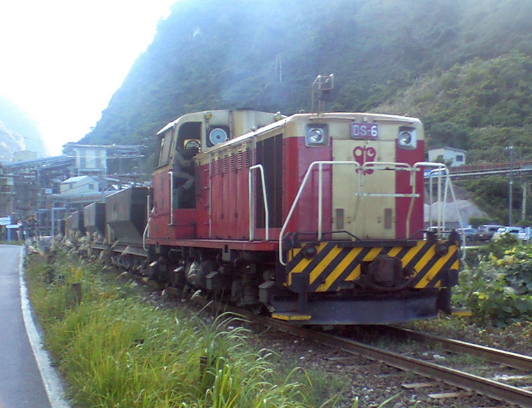 Limestones freight train consists of freight cars type TEKO300 & TEKO400, pushed by diesel locomotive type DS-6 at Itoigawa city, Japan.